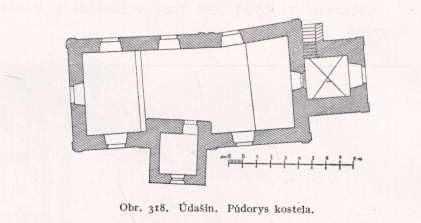 Plan of the church in Aldašín